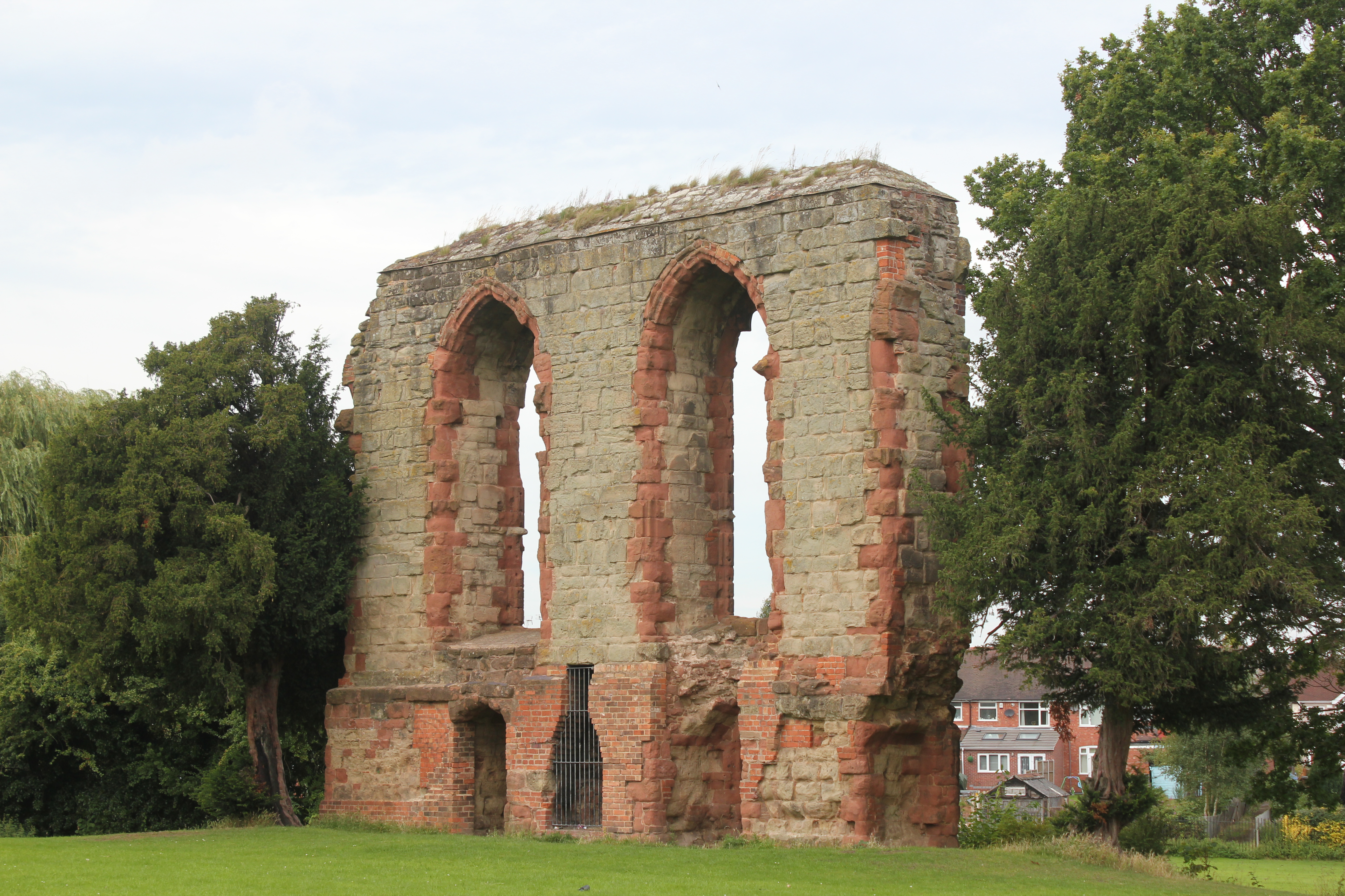 N1 - Caludon Castle in Coventry, UK